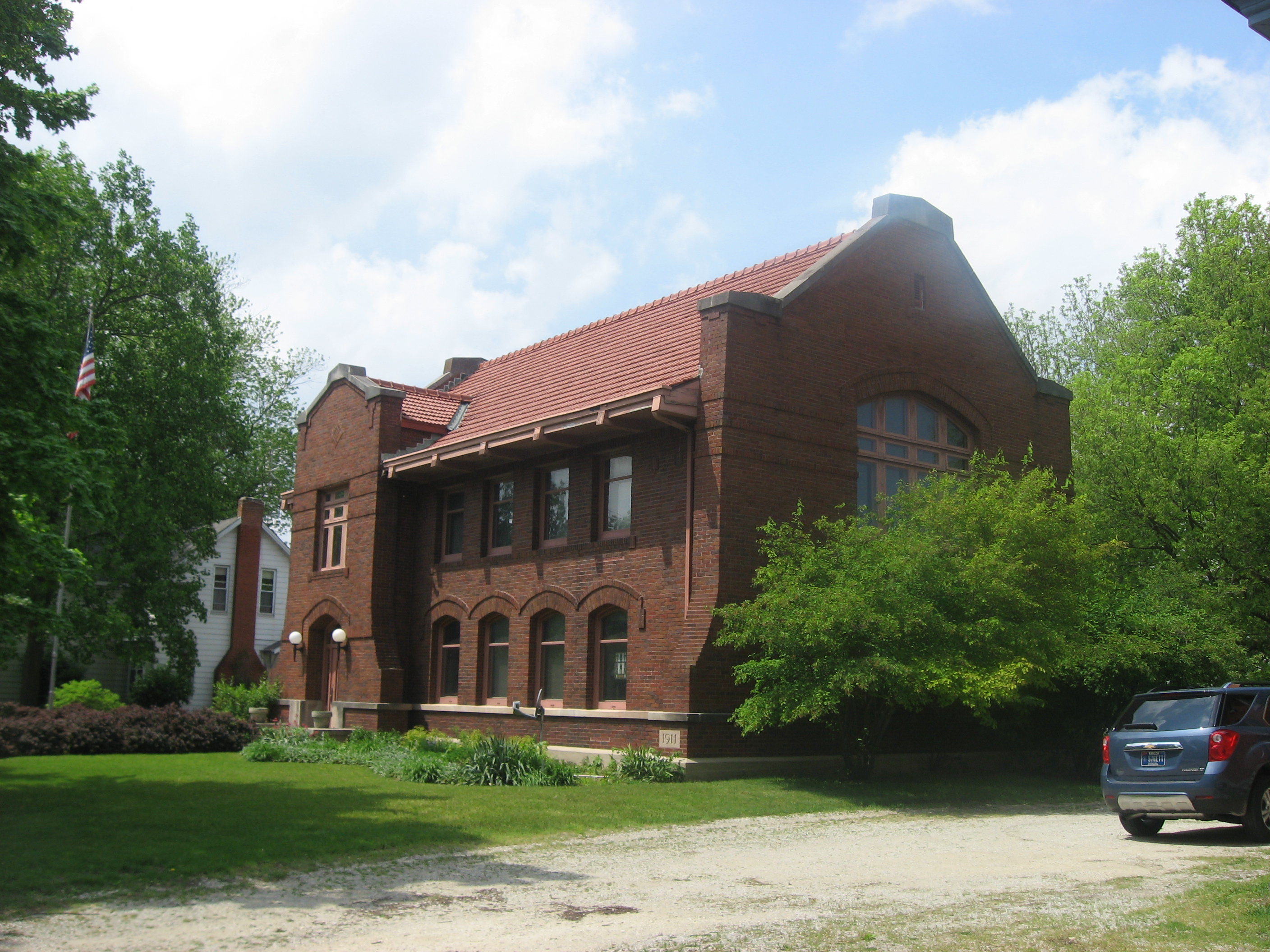 Front and eastern side of the former North Manchester Public Library, located at 204 W. Main Street (State Road 114) in North Manchester, Indiana, United States. Built in 1912 and since converted into law offices, it is listed on the National Register of Historic Places, and it is part of a Register-listed historic district, the North Manchester Historic District.